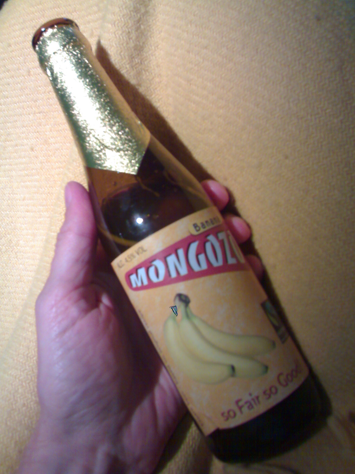 Belgian banana beer